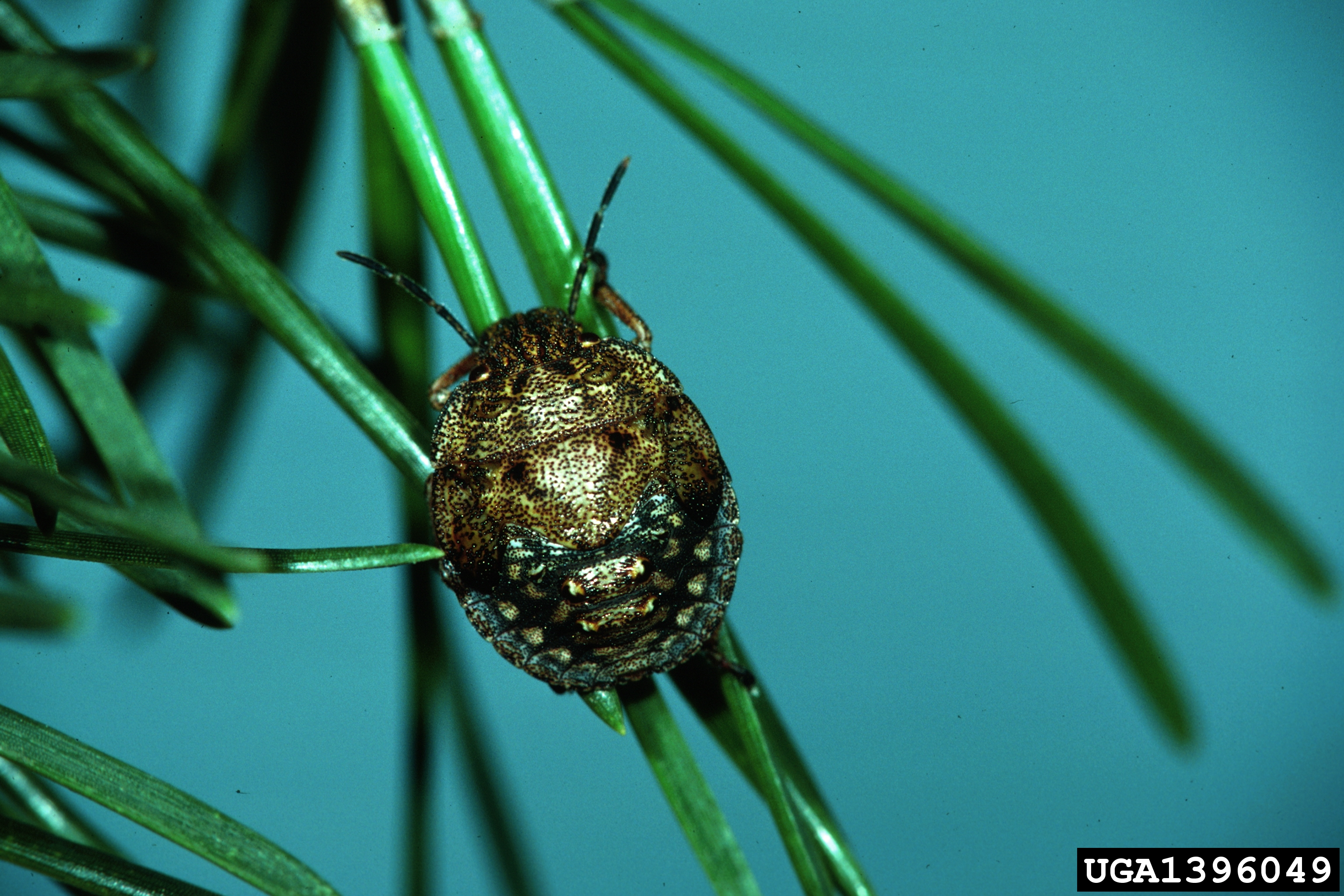 Shieldbacked pine seed bug (Tetyra bipunctata) (adult) ; family Scutelleridae